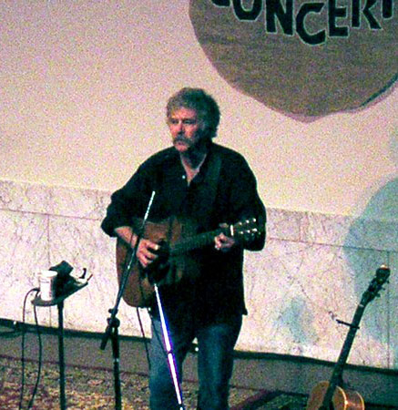 Picture of Tom Rush performing at the Carnegie Lecture Hall in Pittsburgh, Pennsylvania, on April 22, 2006.